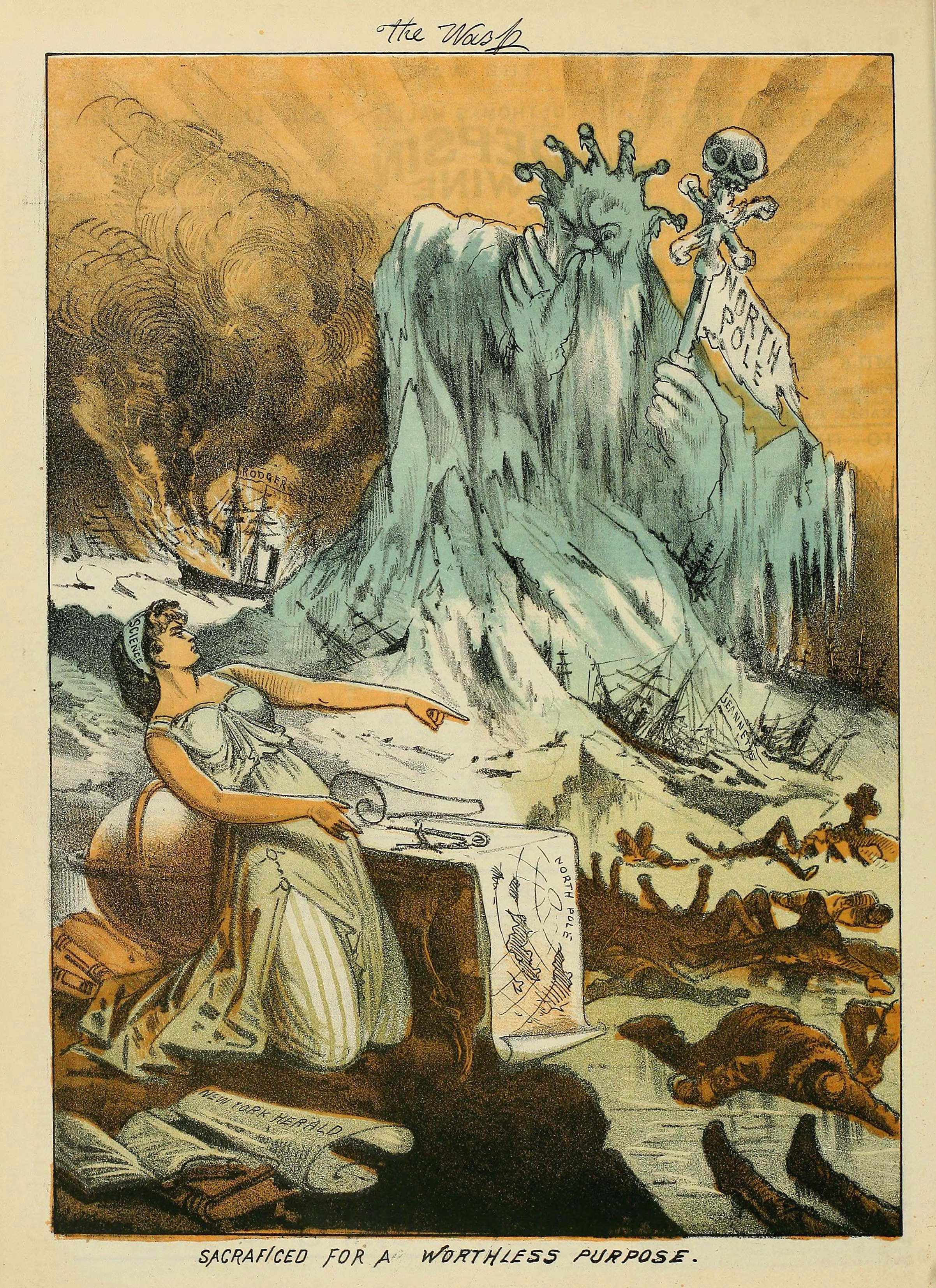 "Sacrificed for a worthless purpose". A cartoon commemorating the failed Jeannette expedition to reach the North Pole via the Bering Strait.